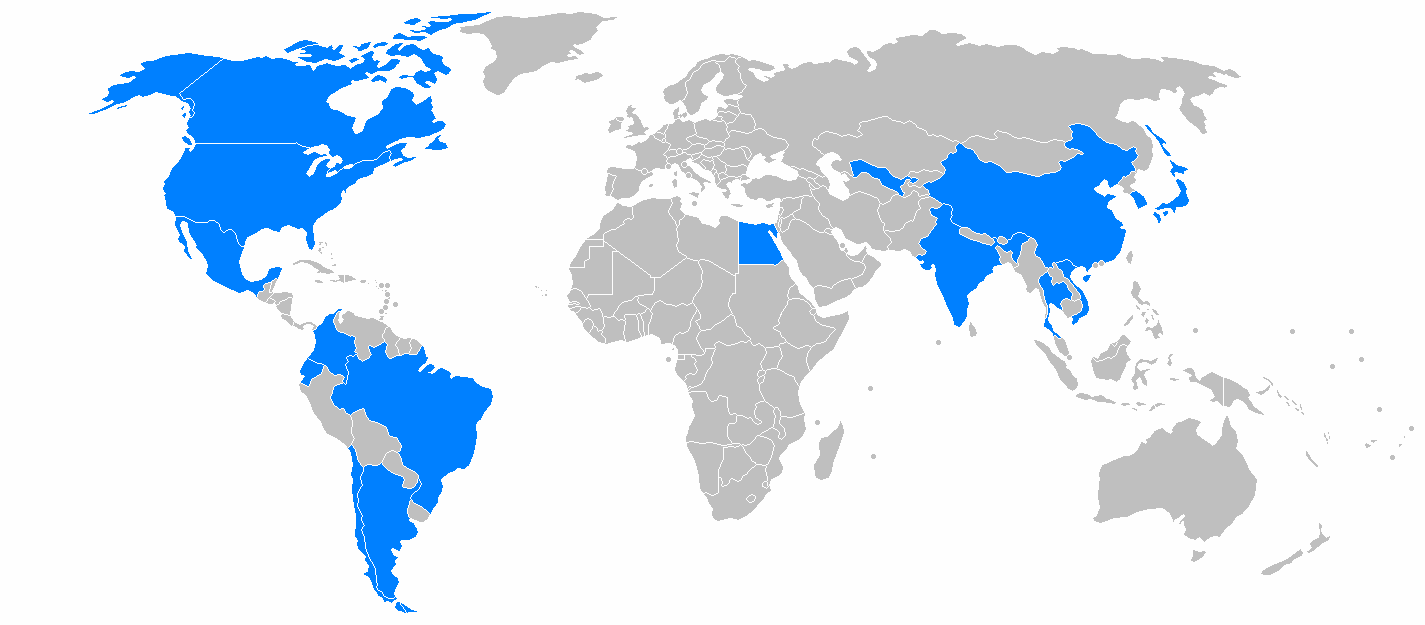 World locations of General Motors auto factories